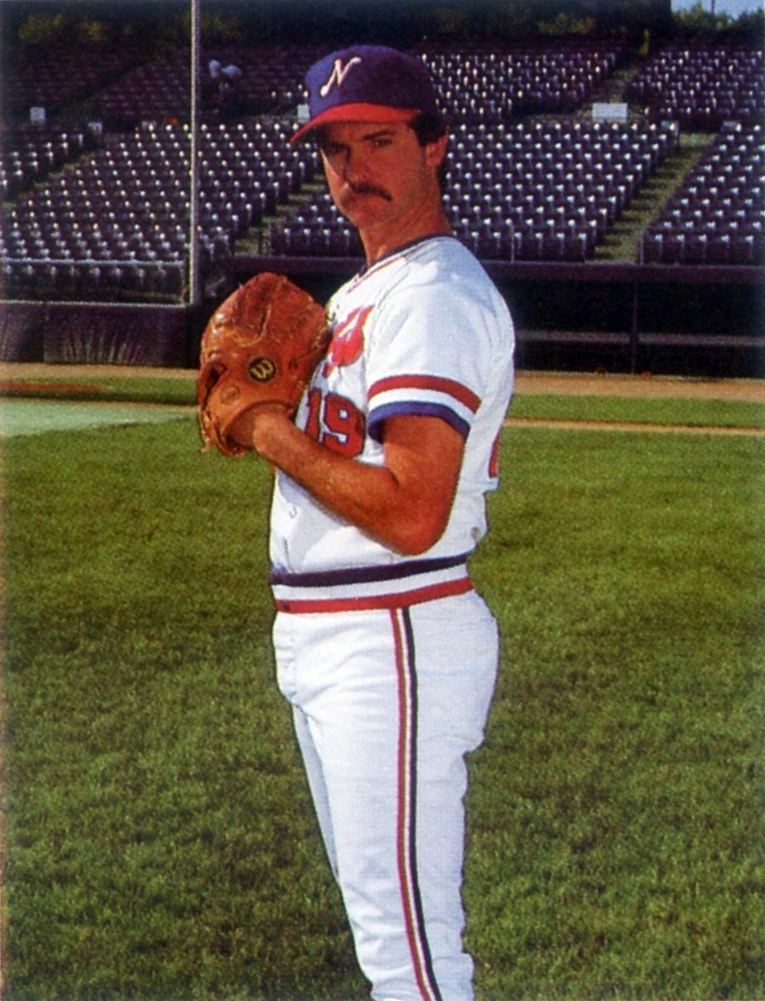 Pitcher Bob Stoddard of the 1985 Nashville Sounds Minor League Baseball team of the American Association